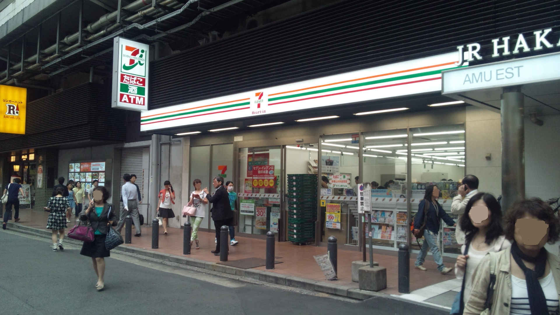 7-Eleven Heart-in JR Hakata Chikuchiguti store